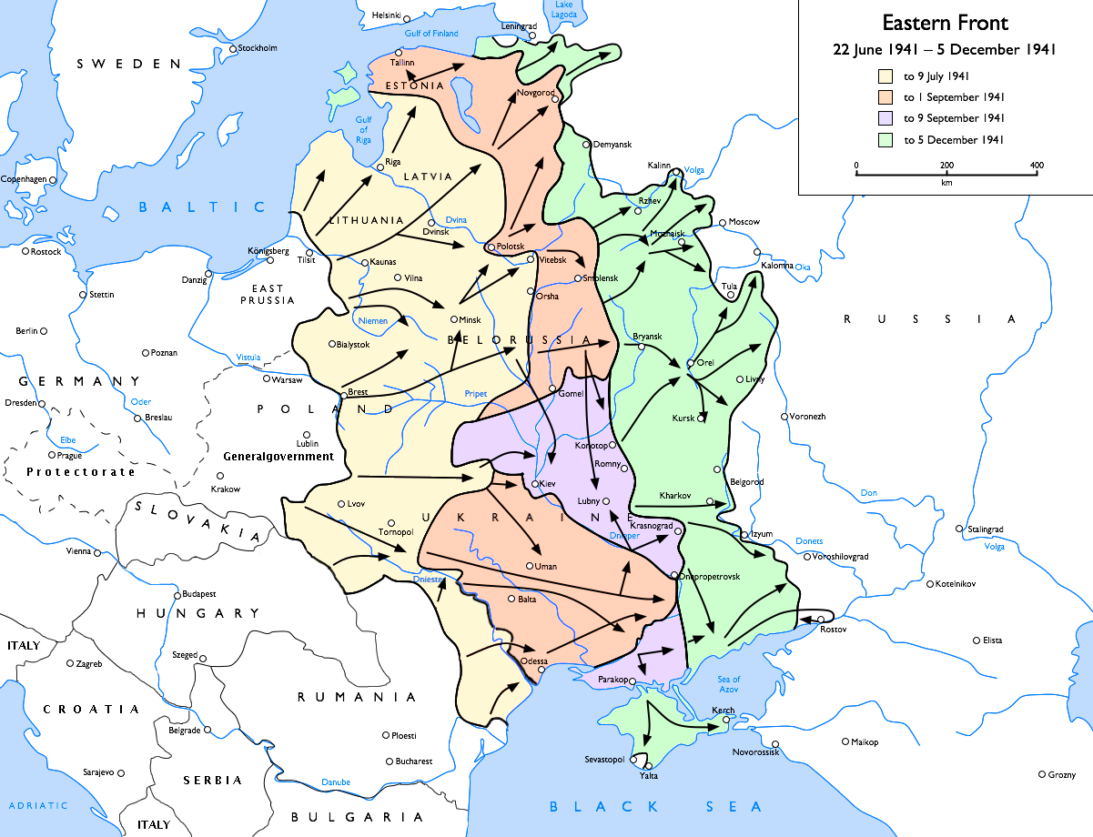 Map of the Eastern Front (WWII), 1941-06-21 to 1941-12-05 to 9 July 1941 to 1 September 1941 to 9 September 1941 to 5 December 1941